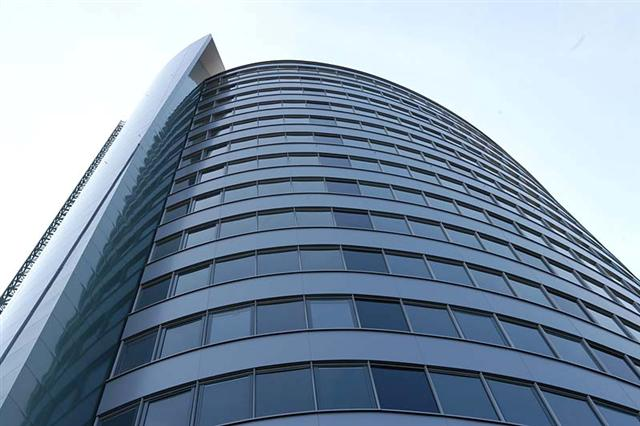 Wissensturm, view from the ground, Linz